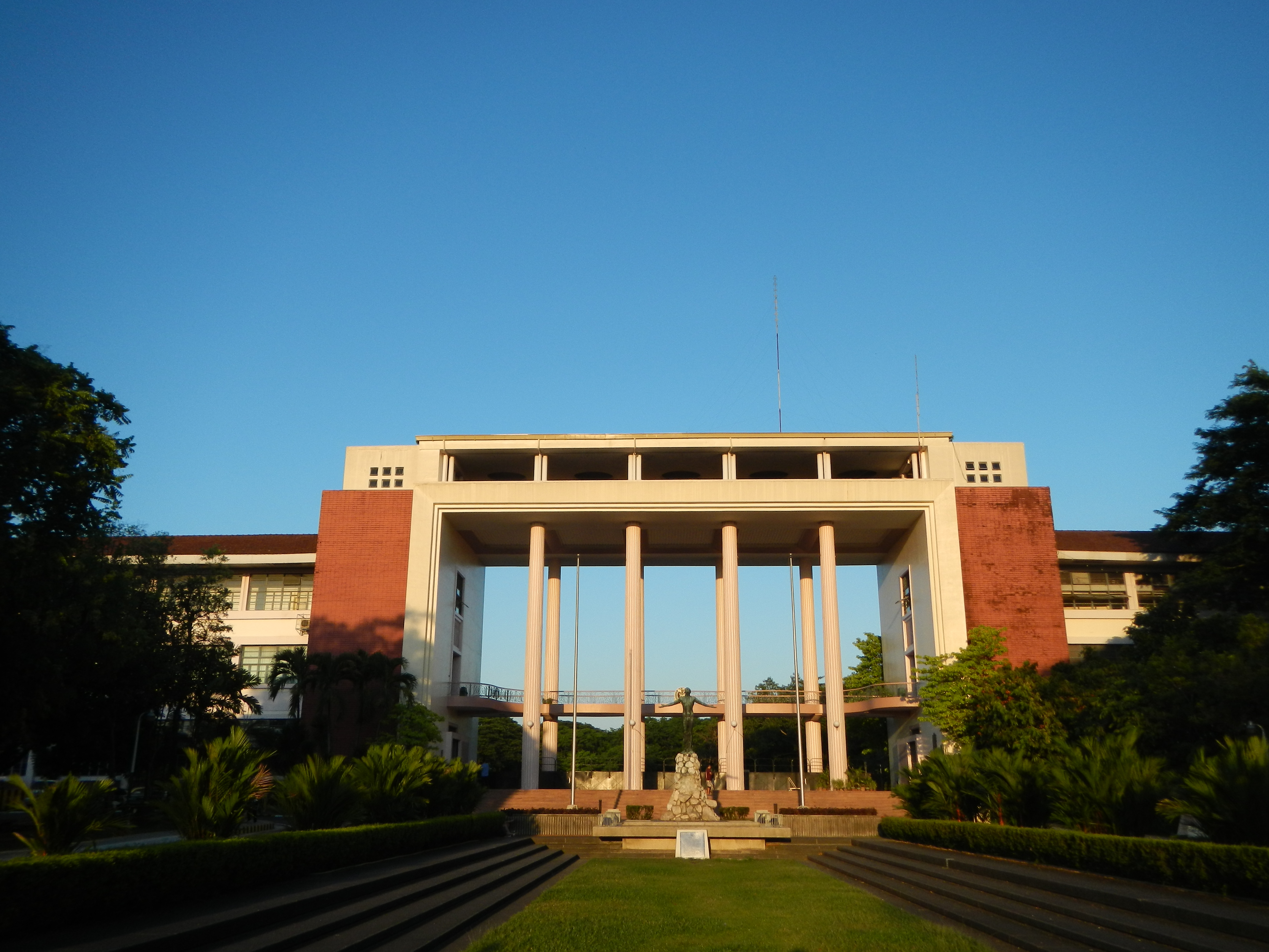 University of the Philippines Diliman[1]